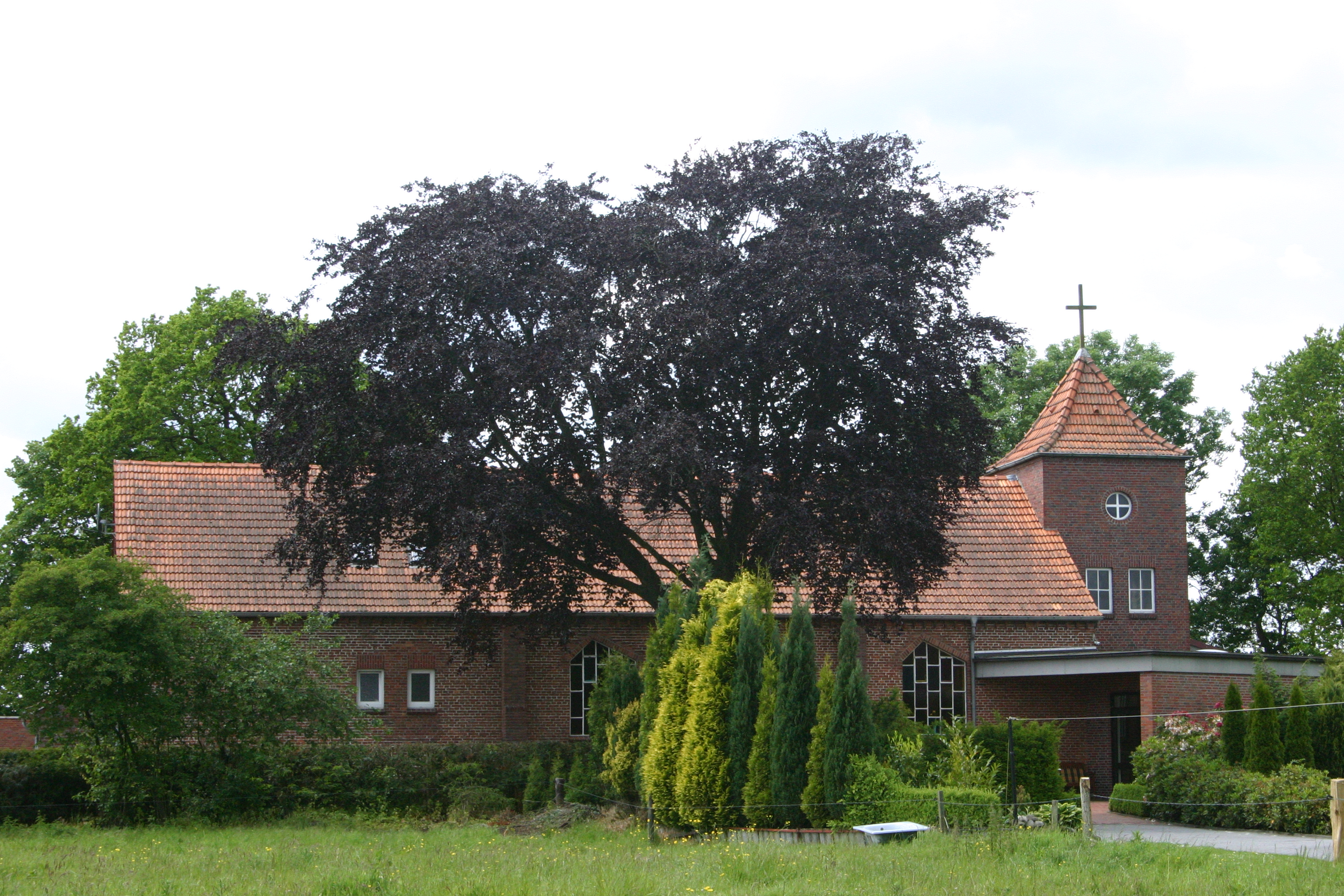 Methodist church in Neuschoo, district of Wittmund, East Frisia, Germany.